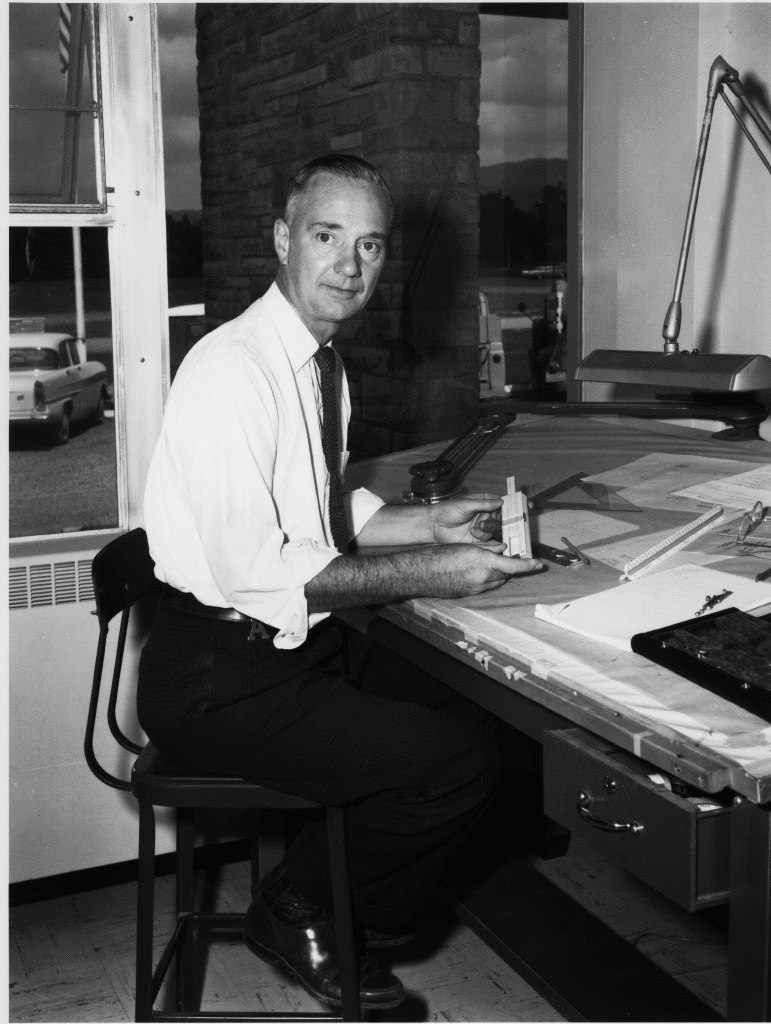 Grote Reber, inventor of the radio telescope.